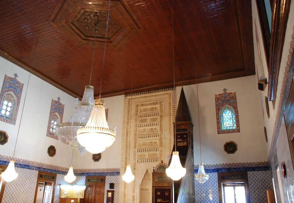 Haci Bayram in Ankara